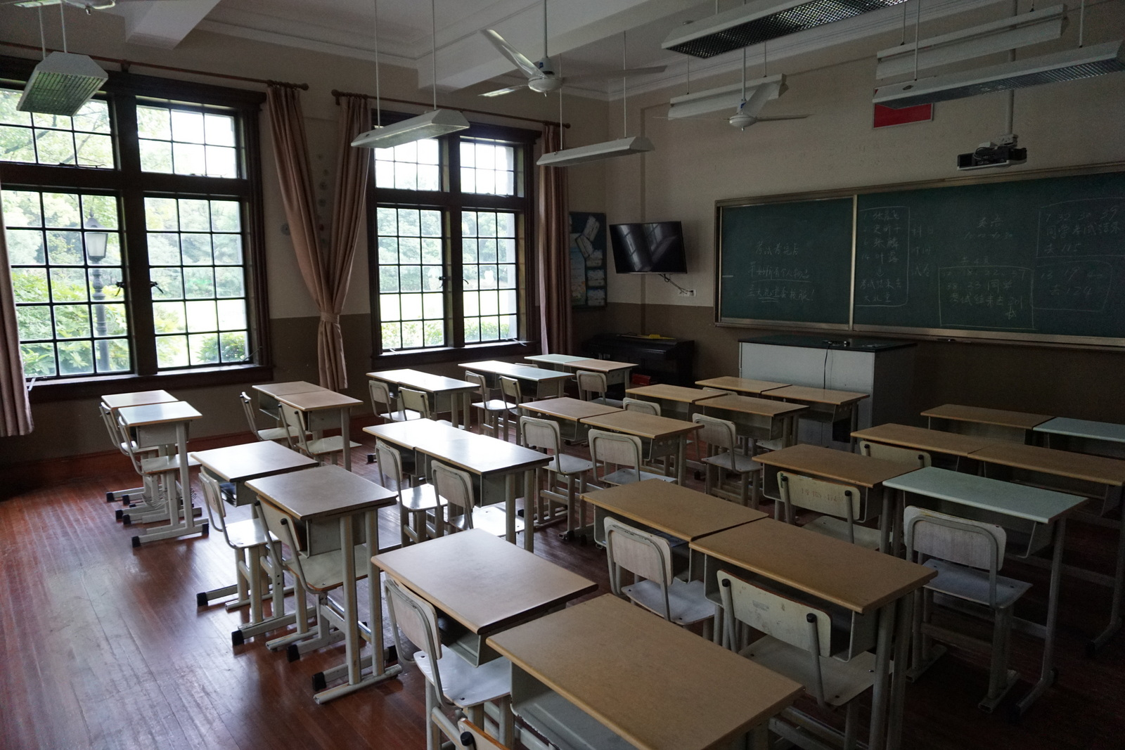 Shanghai No. 3 Girls' High School, class room